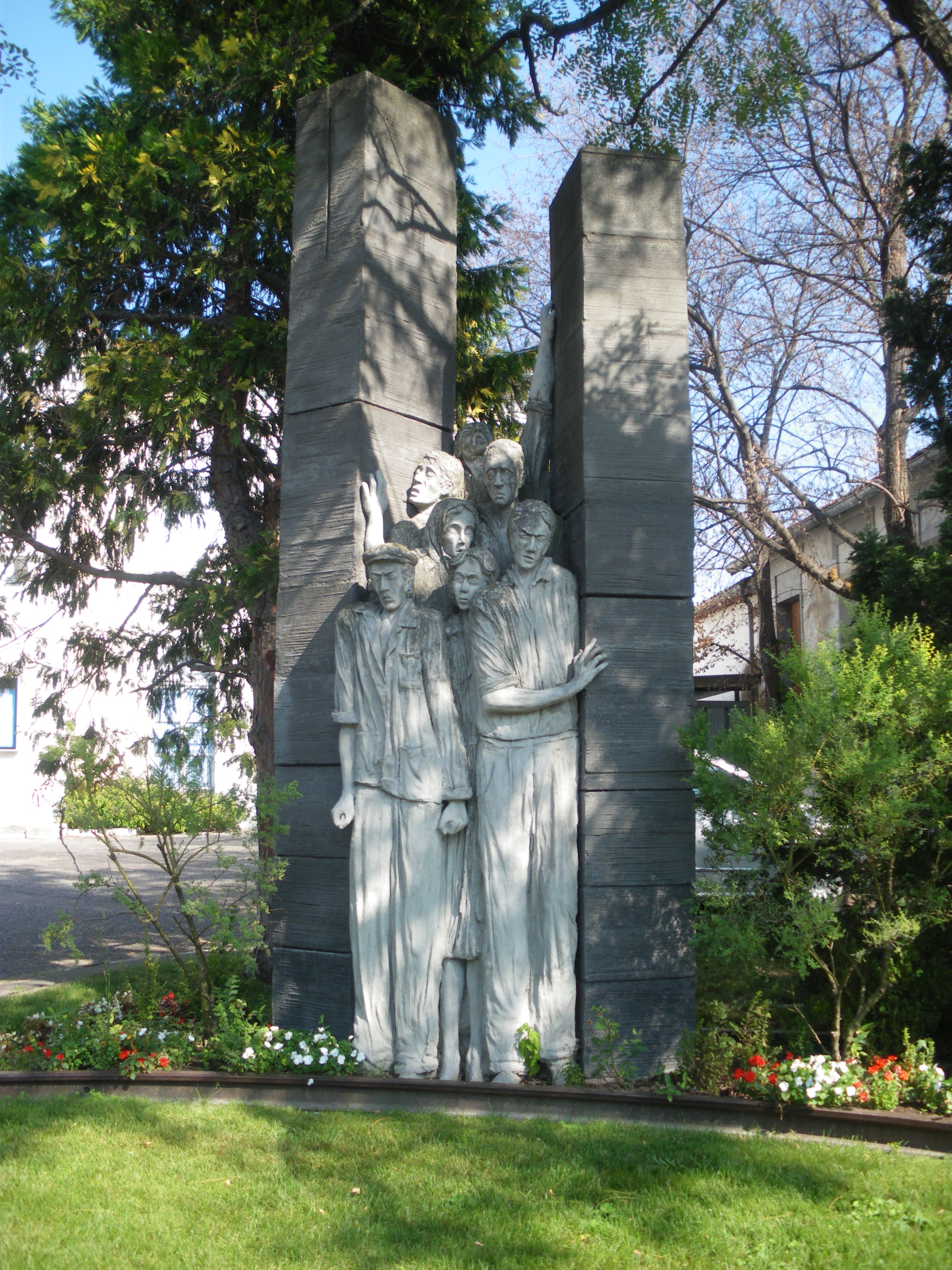 Monument in memory of the 700 deportees of the " Fantôme" train, which passed by Sorgues on August 18, 1944 (Vaucluse, France).